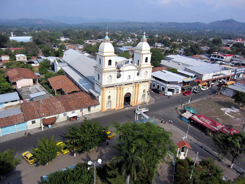 The cathedral on Parque Central, San Vicente, El Salvador.